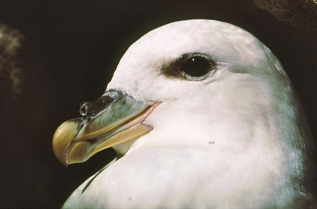 A proud Fulmar Petrel of St Kilda The islanders sold the Fulmar feathers to the British Army as they were effective in countering bed lice. The oil exuded by the bird was sold as a cure for rheumatism and the meat like that of the Puffin was a favoured food source. The Fulmar like the Albatross is a "tubenose" having a "tube" atop its beak through which it can shoot a vile oil with such precision as to separate a gnat from its eye.